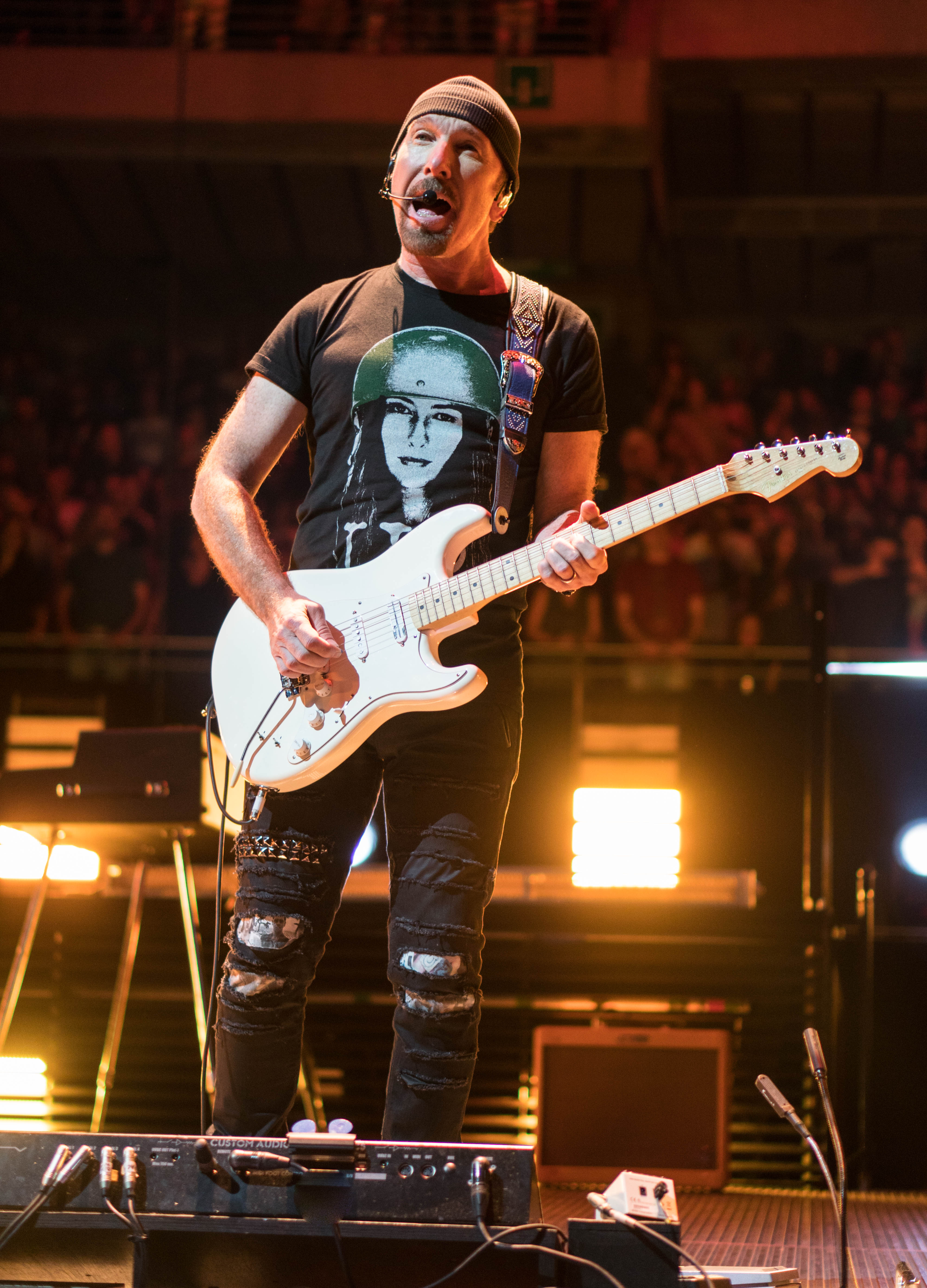 U2 guitarist the Edge wearing a T-shirt with his daughter's photo on it during a performance at WiZink Center in Madrid, Spain on September 21, 2018 during the Experience + Innocence Tour